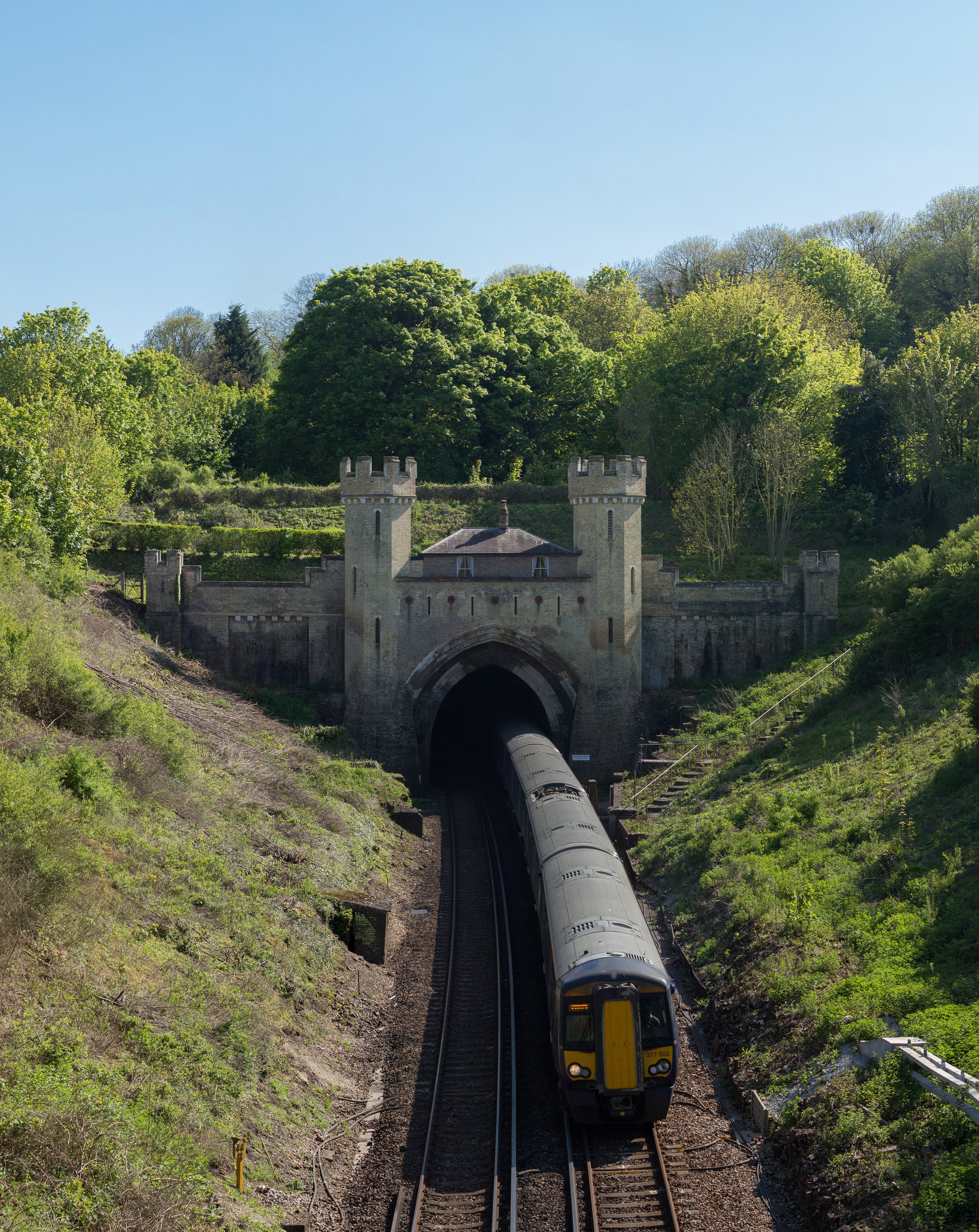 Clayton Tunnel as viewed from the north in West Sussex, England.